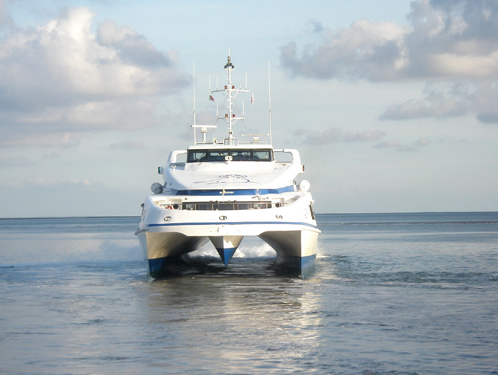 MS TIGER